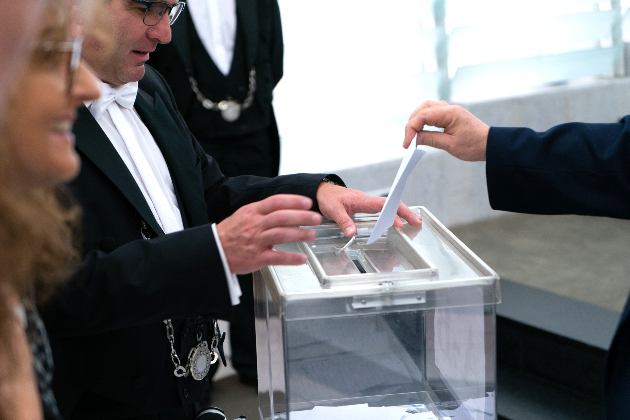 This photo is free to use under Creative Commons license CC-BY-4.0 and must be credited: "CC-BY-4.0: © European Union 2019 – Source: EP". No model release form if applicable. For bigger HR files please contact: webcom-flickr(AT)